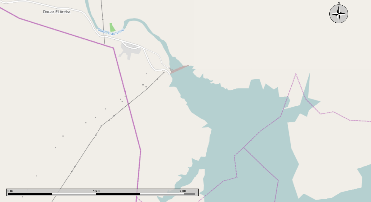 Open Street Map from the Marble program showing the Idriss I dam in Morocco.